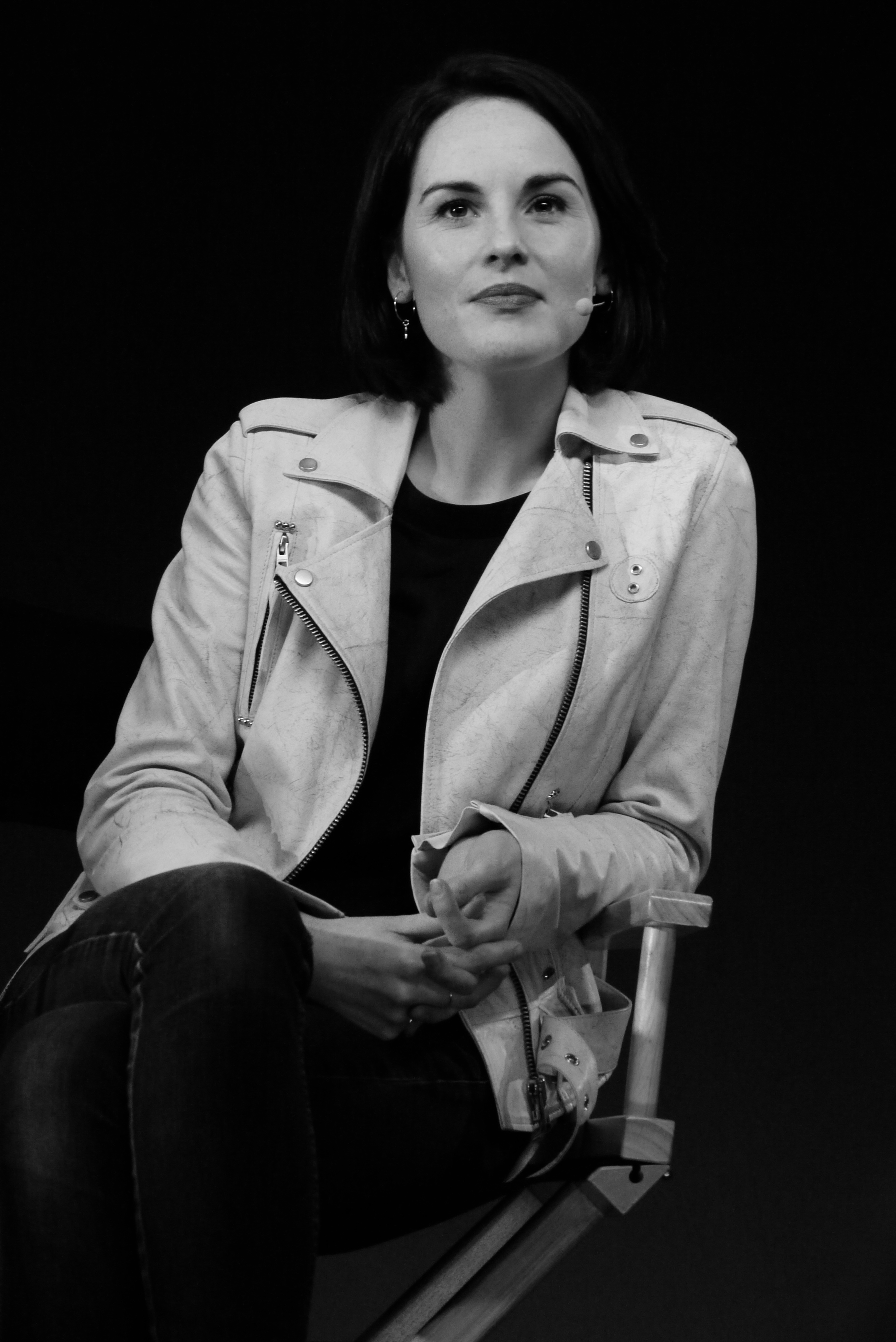 Michelle Dockery at a publicity event promoting Downton Abbey, 2013.